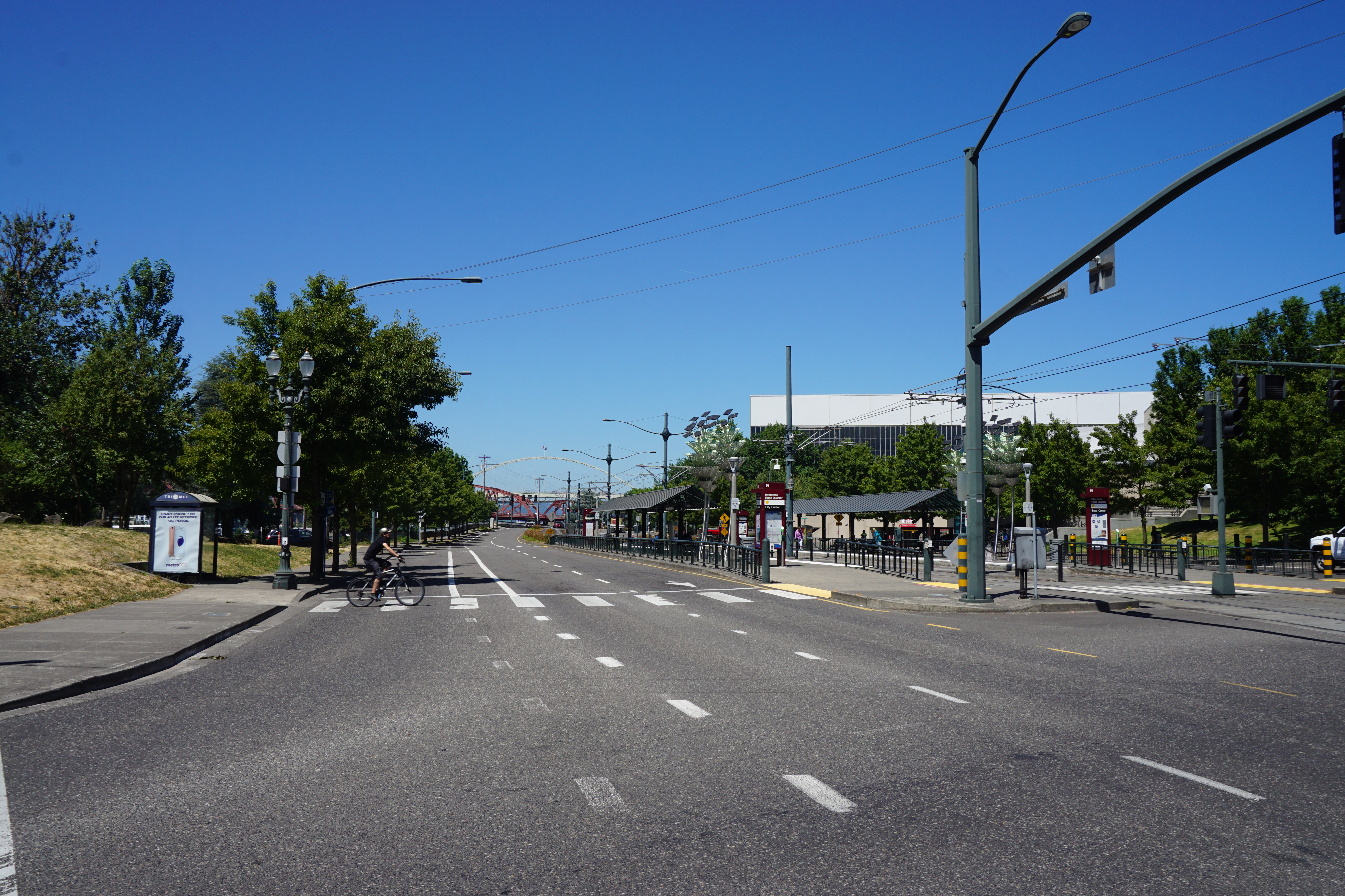 North Interstate Avenue in Portland, Oregon (United States).